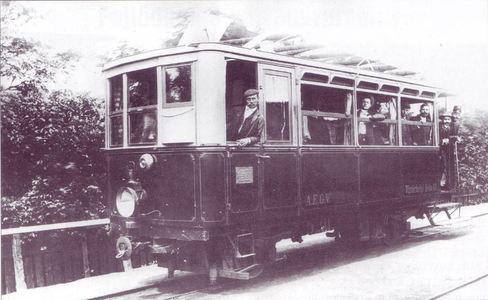 Petrol-electrical railcar of AEGV (Alföld Narrow Gauge Railway) 1910, built by János Weitzer Company in Arad